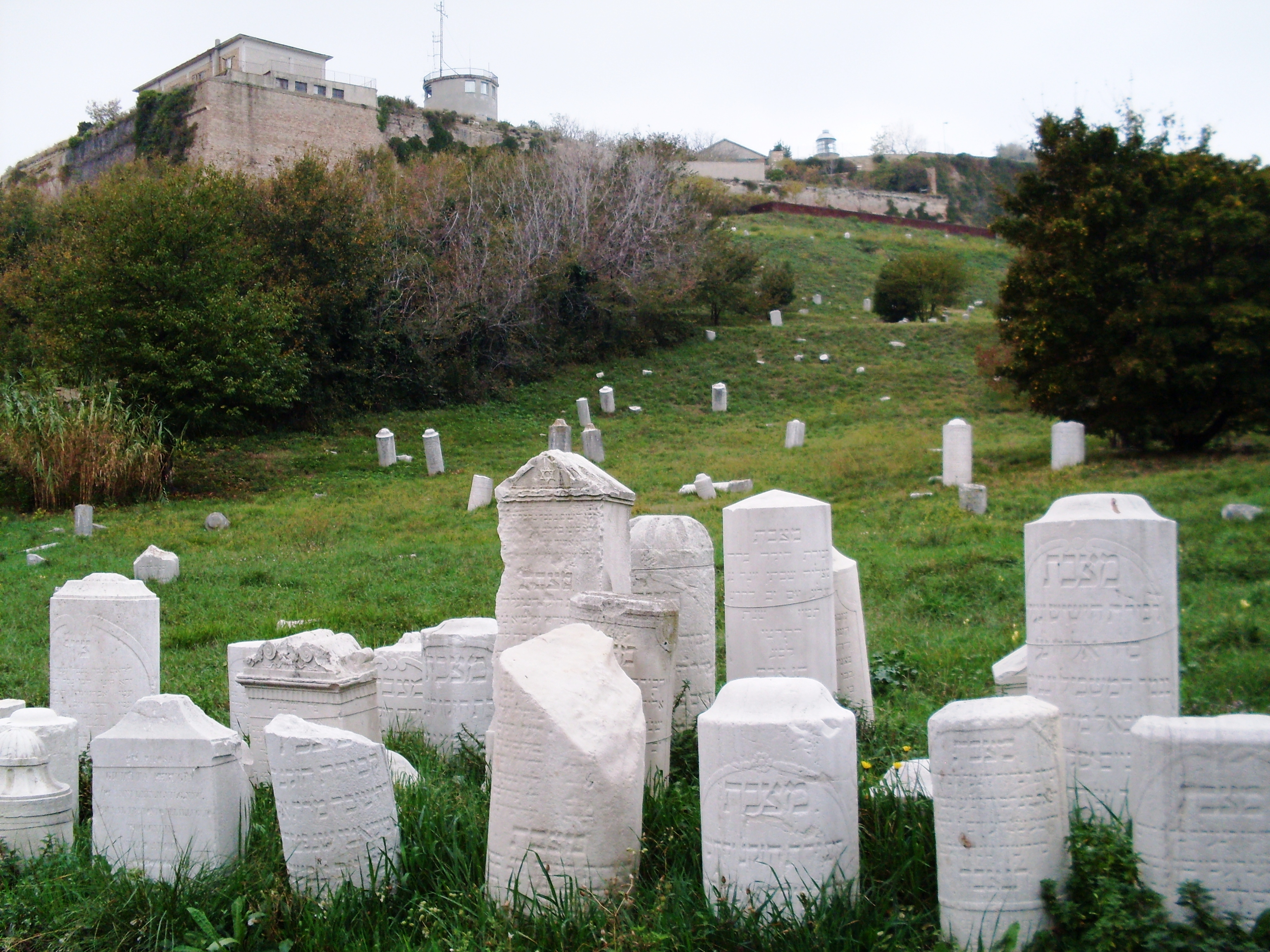 Italy Ancona Old Jewish cemetery